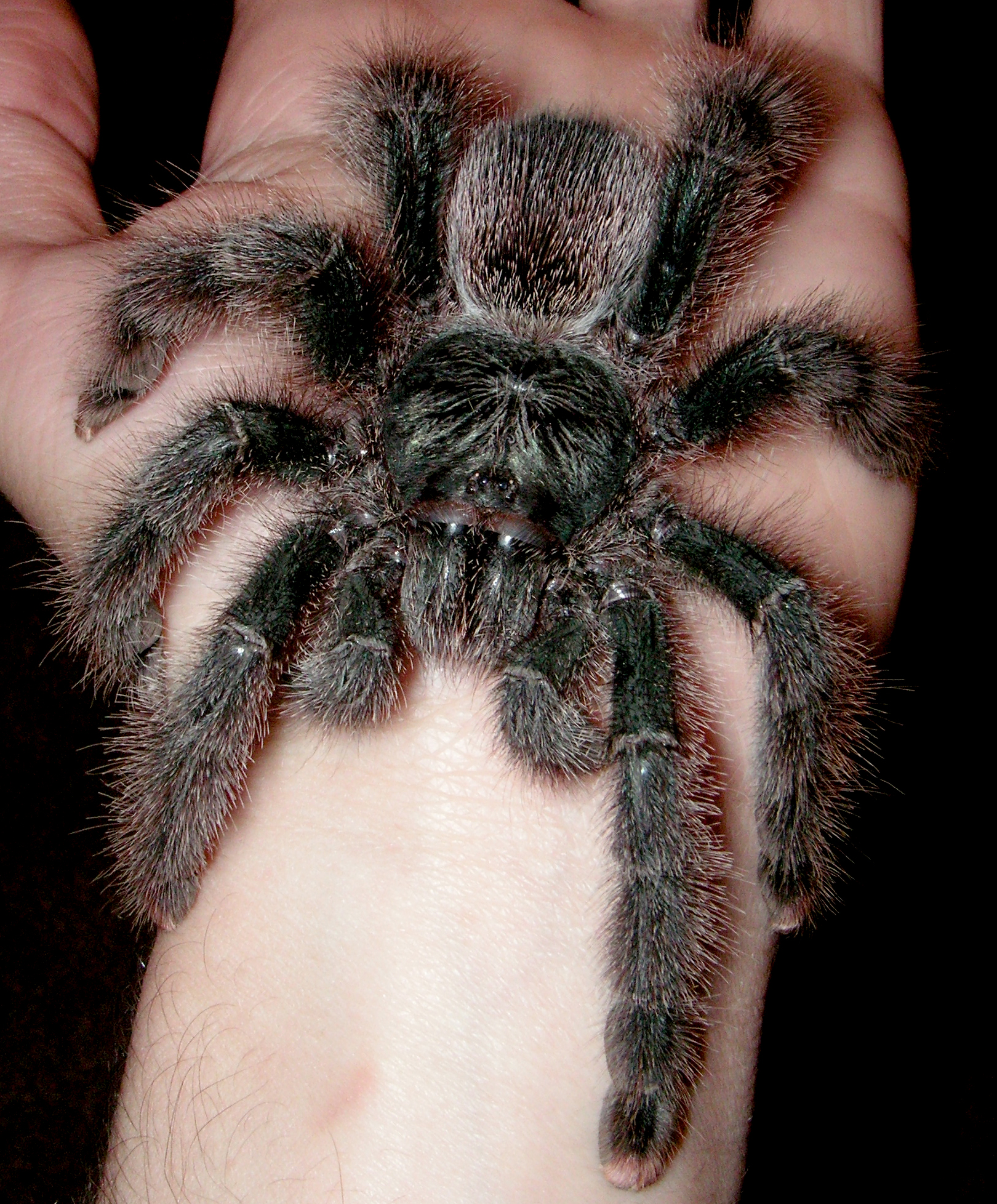 Avicularia Metallica Female Five Inch Specimen